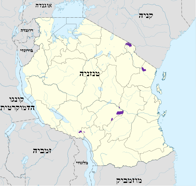 MAP